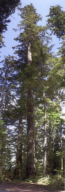 Douglas-fir